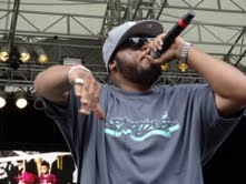 Craig G Central Park 2013